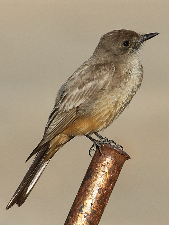 Say's Phoebe discovered by Thomas Say